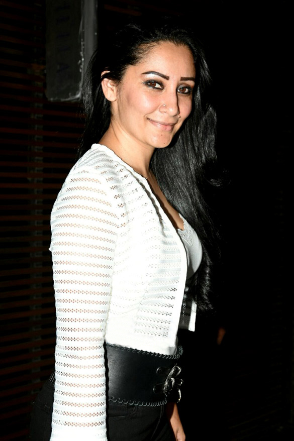 Manyata Dutt snapped at her birthday bash.